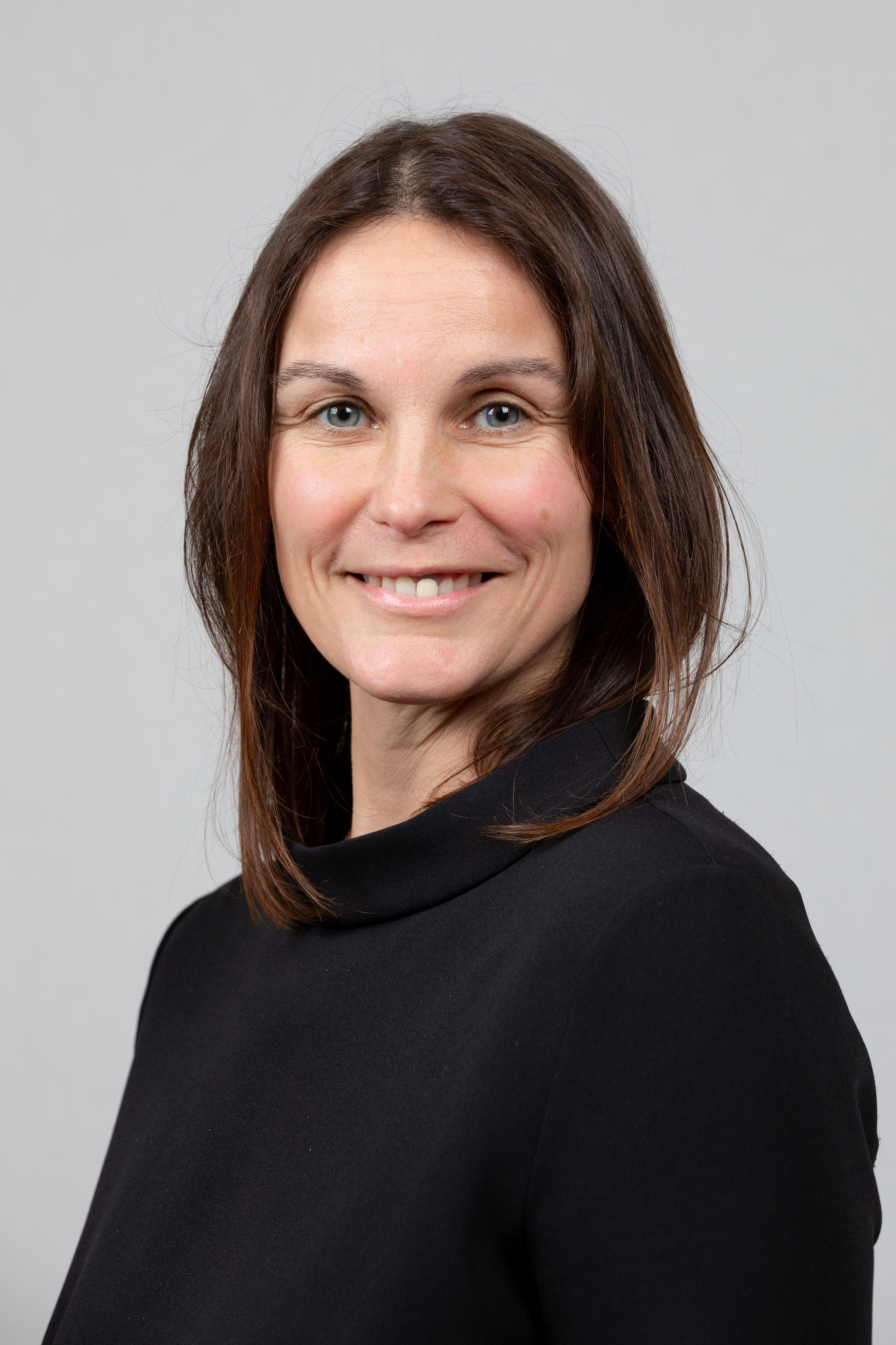 Katy Walther, Landtag of Hesse, Wiesbaden, April 3rd, 2019